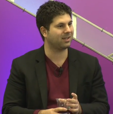 Scott Barry Kaufman at the Aspen Ideas Festival